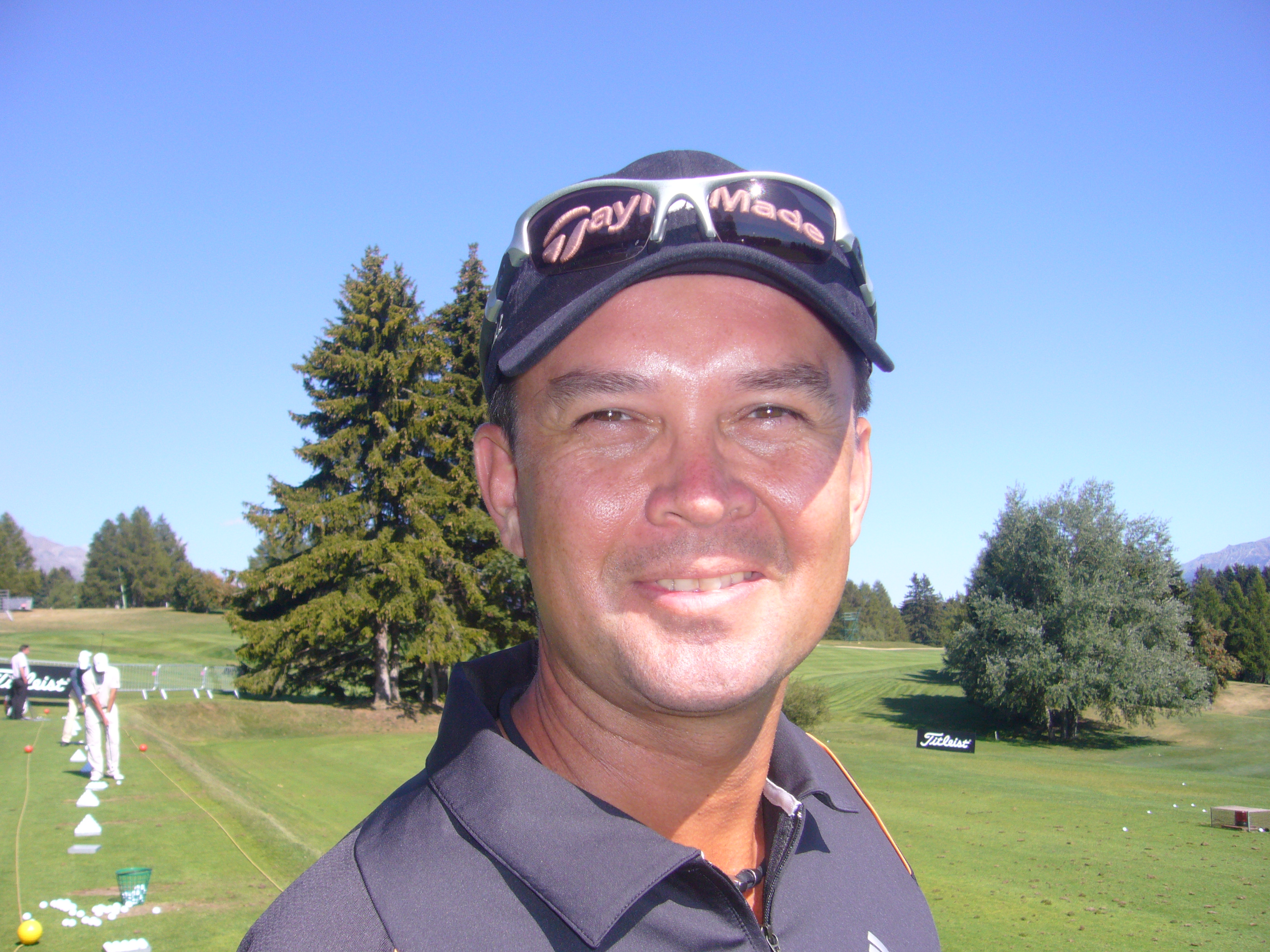 Iain Steel, professional golfer from Malaysia